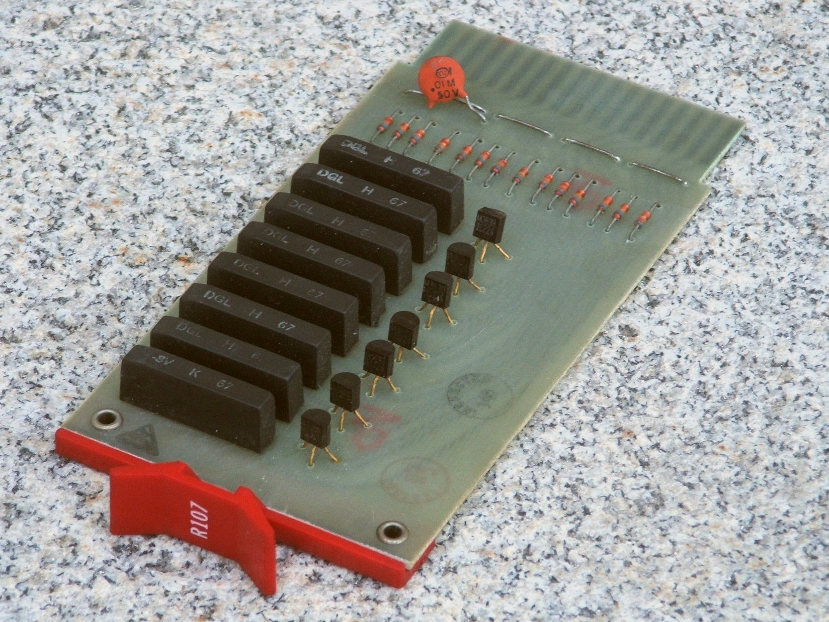 R107 Flip Chip (trademark) module from a TU55 DecTape drive, component side. This module contains 7 inverters, each implemented with one discrete transistor plus a Hybrid integrated circuit built using Flip chip technology.